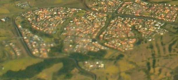 Aerial view of Shell Cove, New South Wales near Wollongong